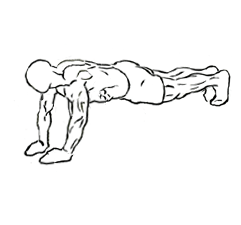 an exercise of chest and triceps